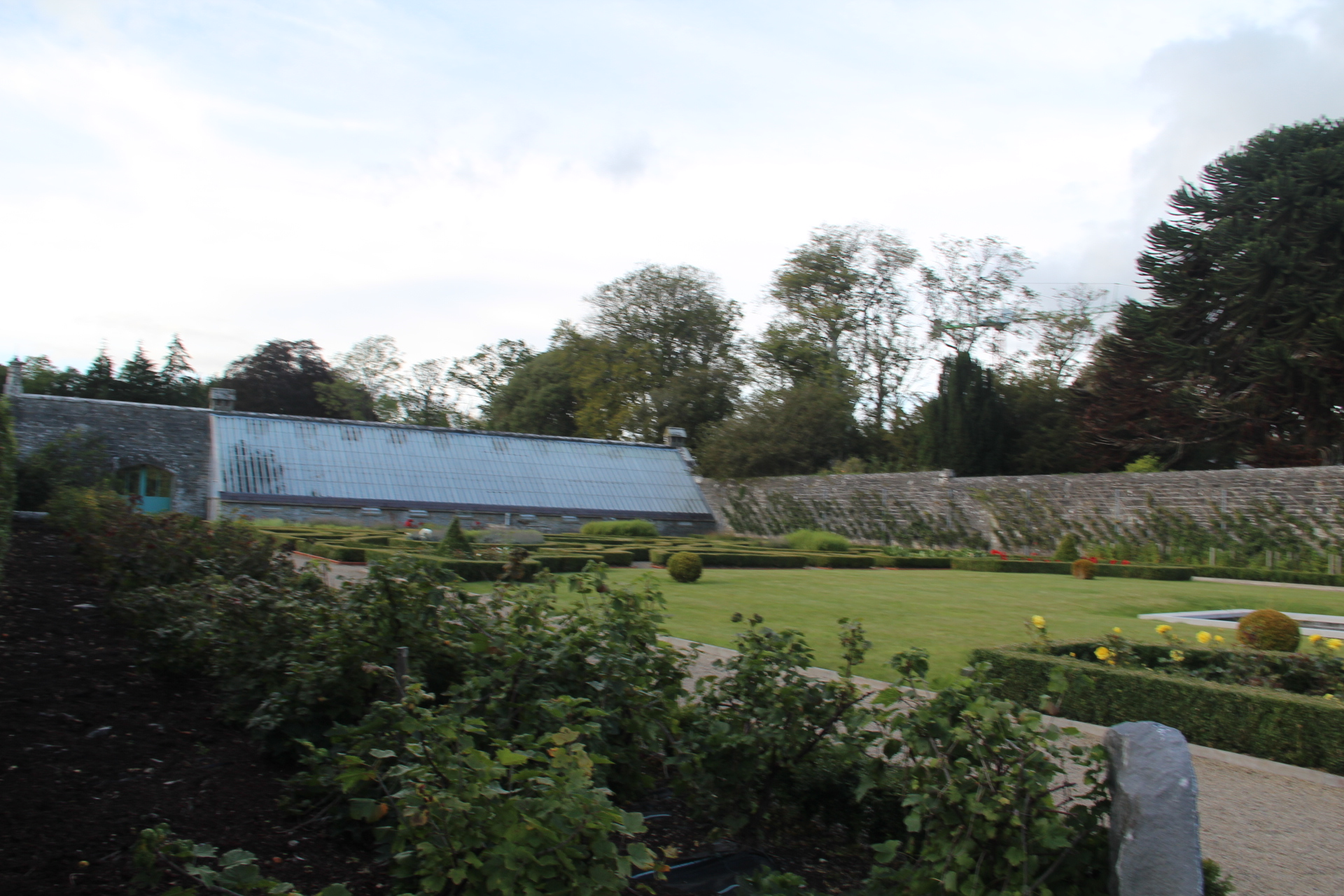 Glasshouse in upper walled garden.